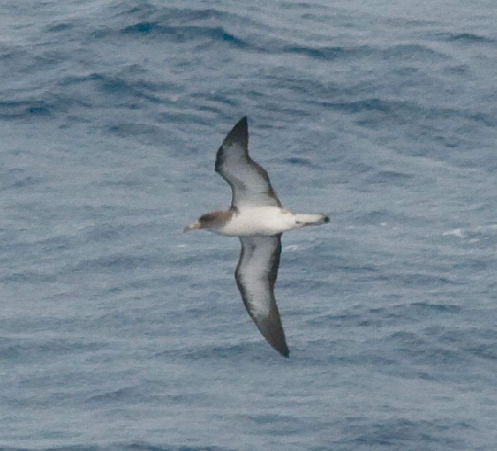 Cory's Shearwater Calonectris borealis, underside, 200 nautical miles east of Madeira.